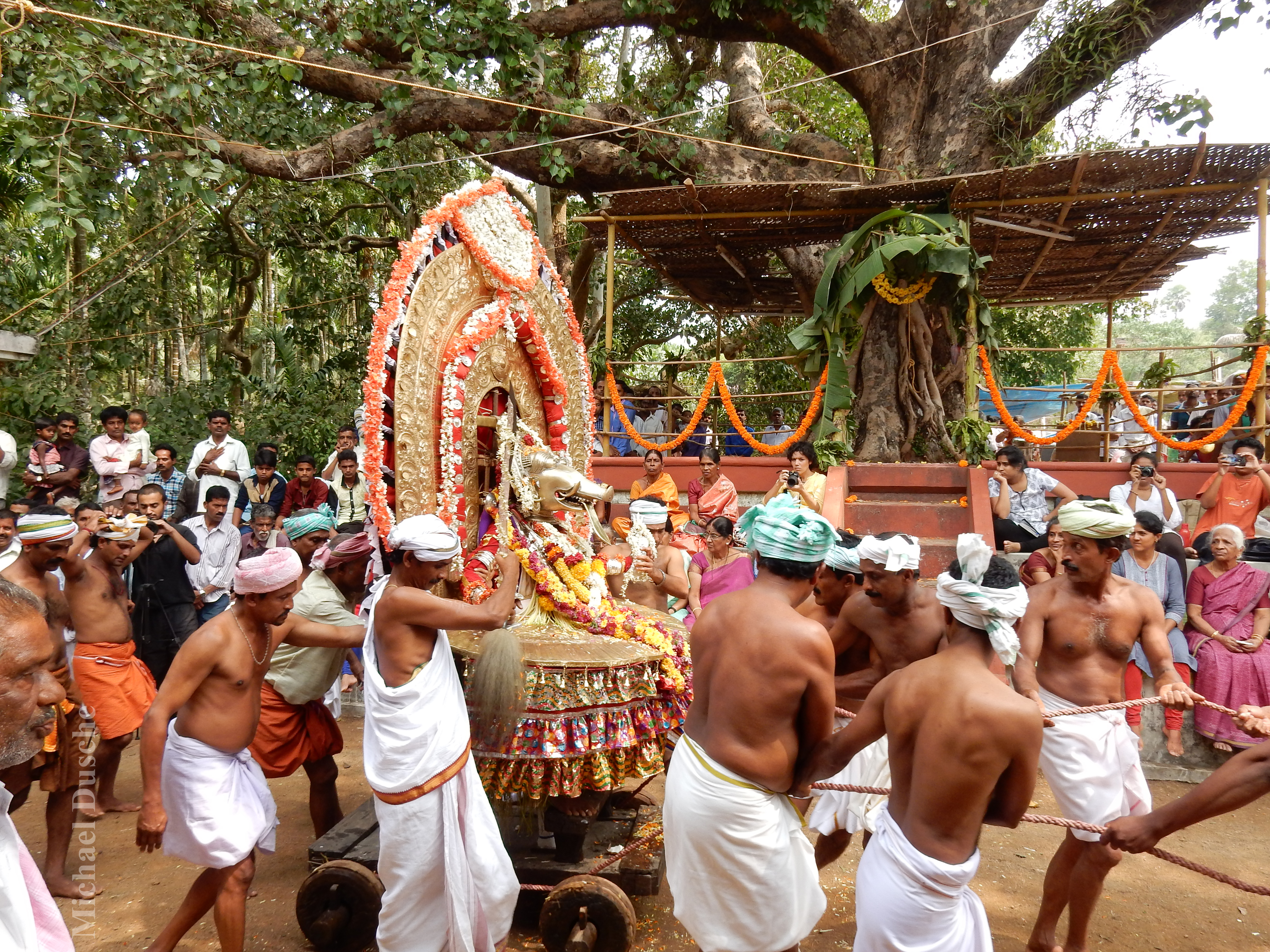 Malarāya